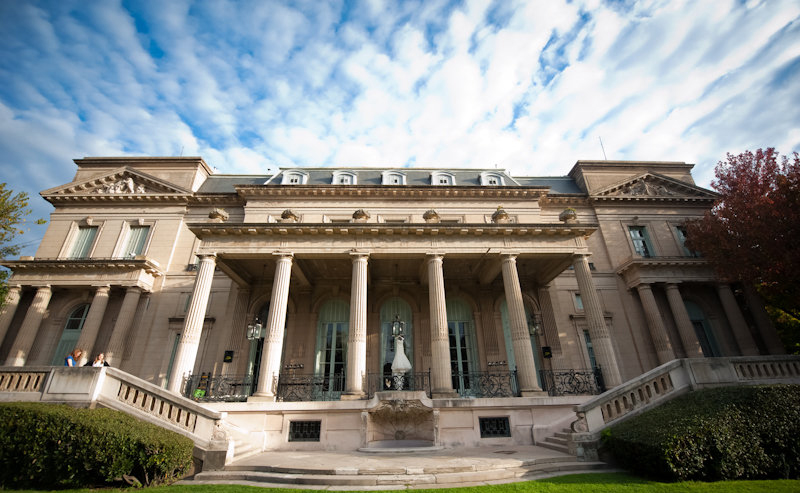 Palacio Sans Souci, Argentina. arquitect René Sergent. Photo by Patricia Figueira @